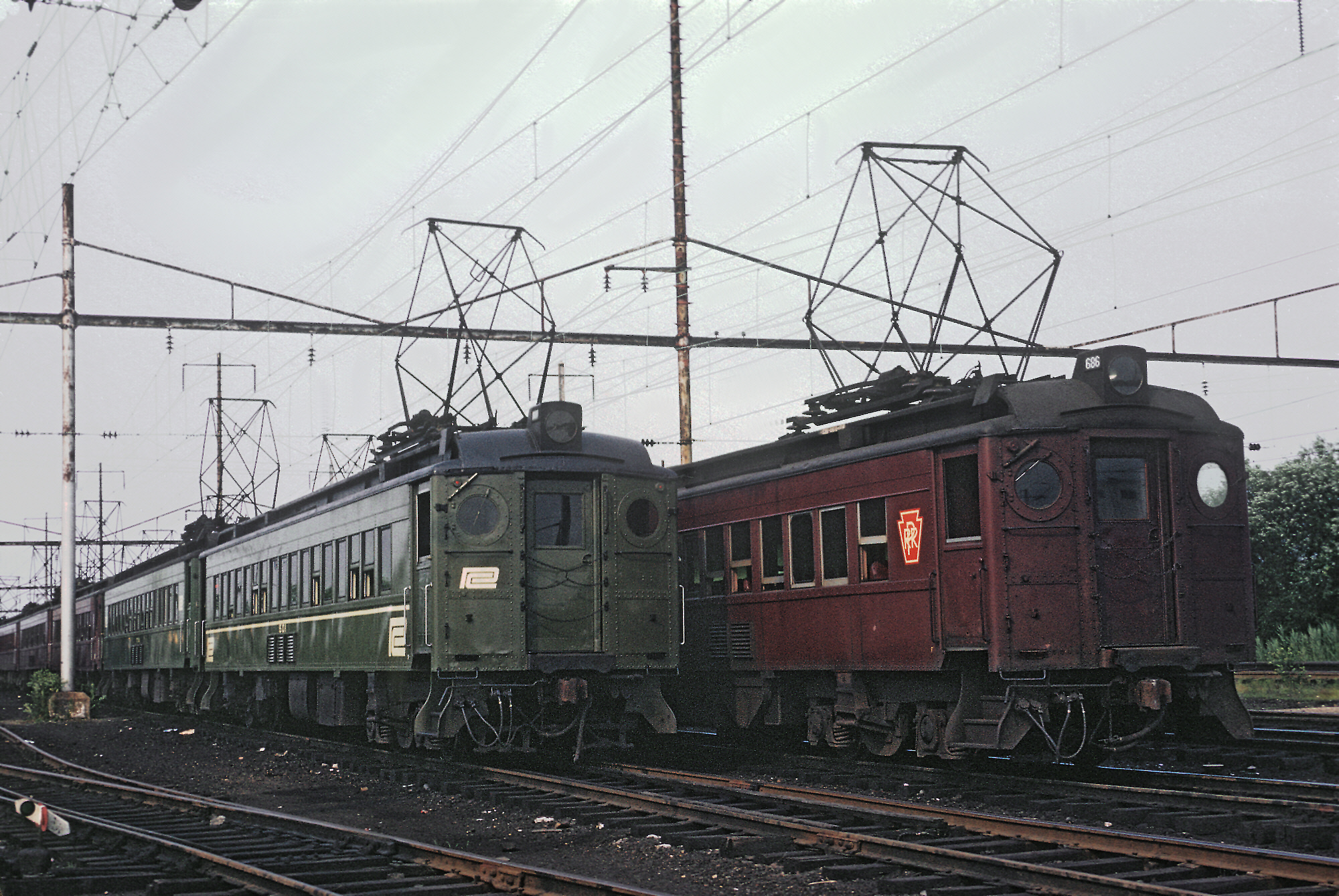 Roger Puta found these Penn Central MU cars in old and new schemes at West Yard, Wilmington, Del. on June 21, 1969.